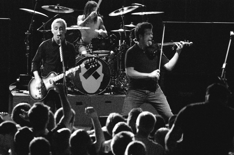 Yellowcard performing in support of their 2006 album Lights and Sounds